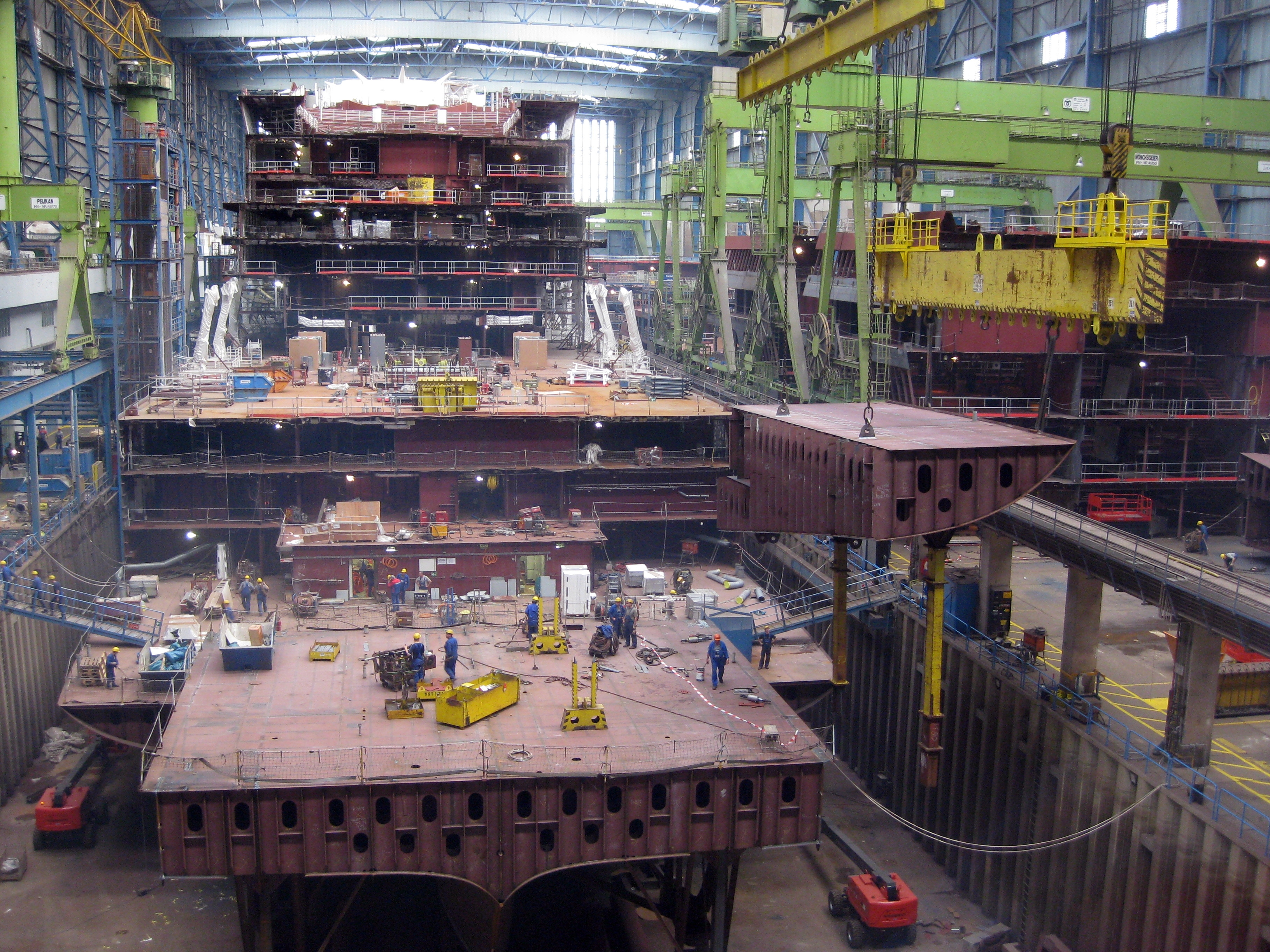 Germany, Papenburg, shipyard Meyer Werft: Cruise ship "AIDAmar" is built.